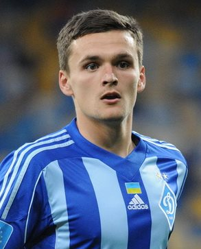 Oleksandr Andriyevskyi playing Dynamo Kiev in 2015